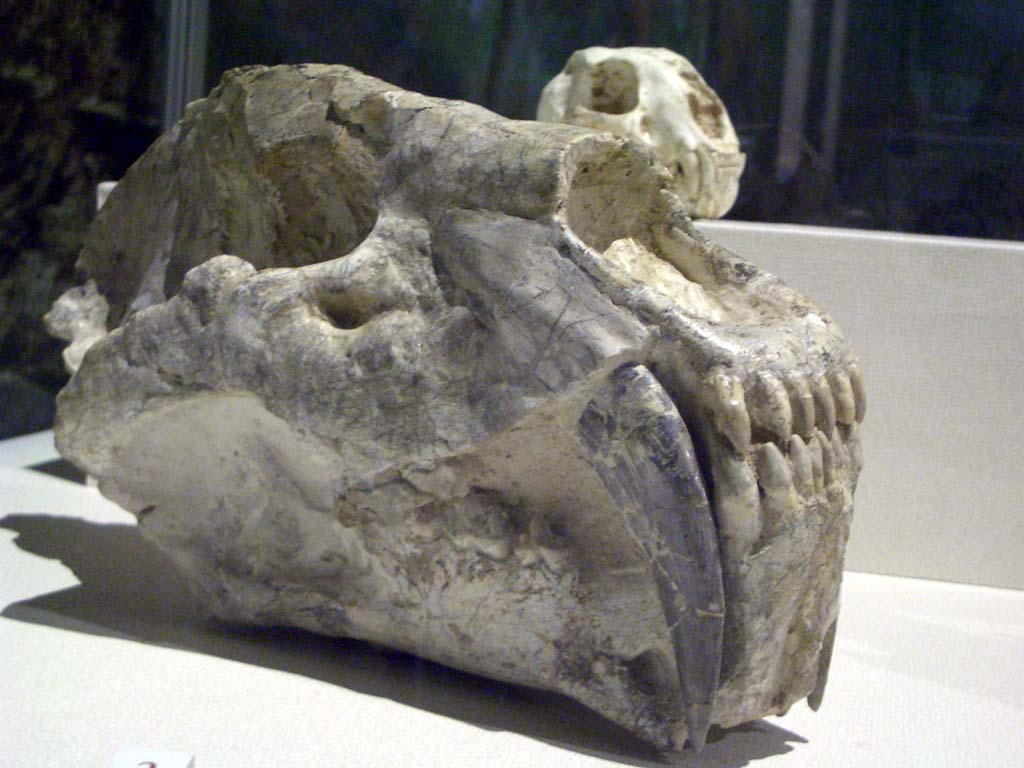 Homotherium skull displayed in Hong Kong Science Museum